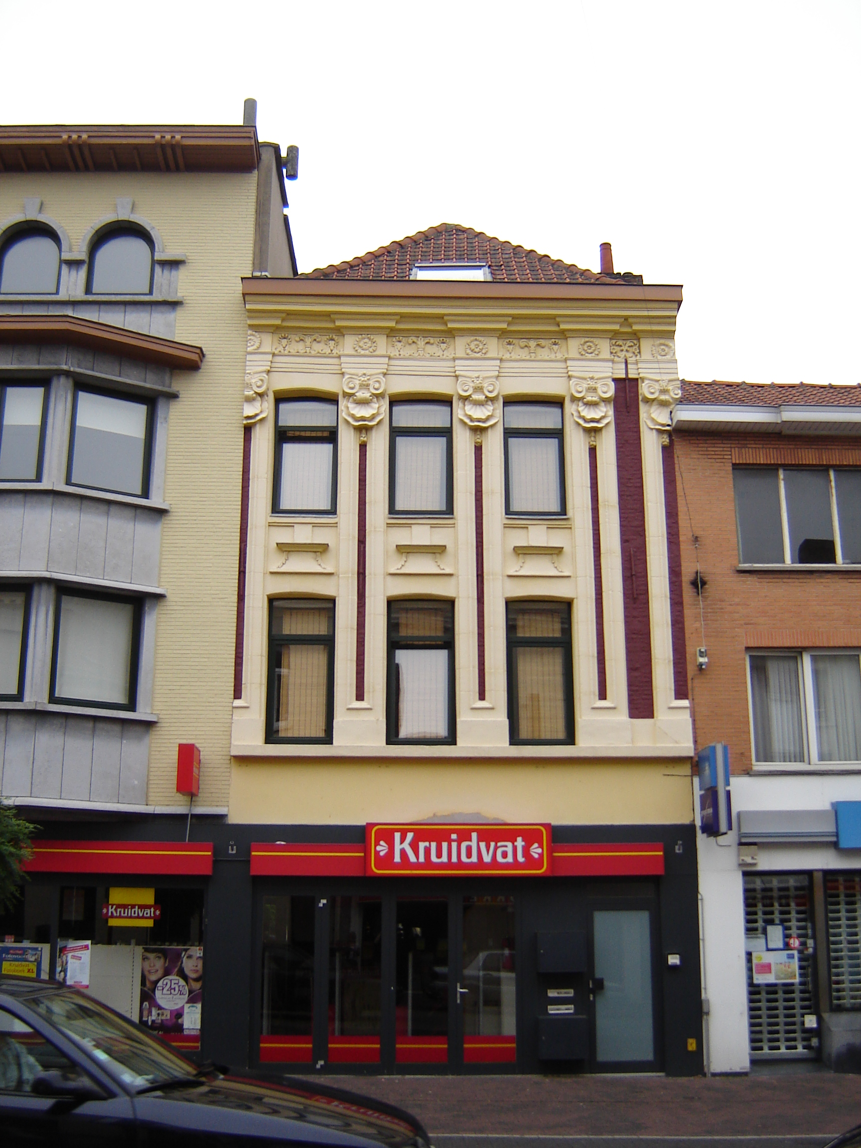 Early 18th century classicistic façade; Rijselstraat 10, Menen. Protected on heritage list. Menen, West Flanders, Belgium